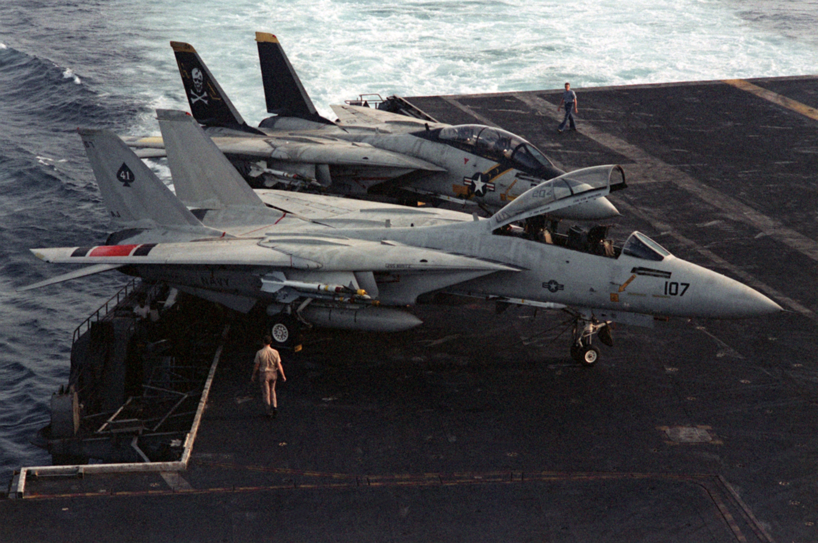 Two U.S. Navy Grumman F-14A Tomcat fighter aircraft from fighter squadrons VF-41 Black Aces and VF-84 Jolly Rogers parked on the flight deck of the nuclear-powered aircraft carrier USS Nimitz (CVN-68). Note the special markings applied for "Operation Eagle Claw".